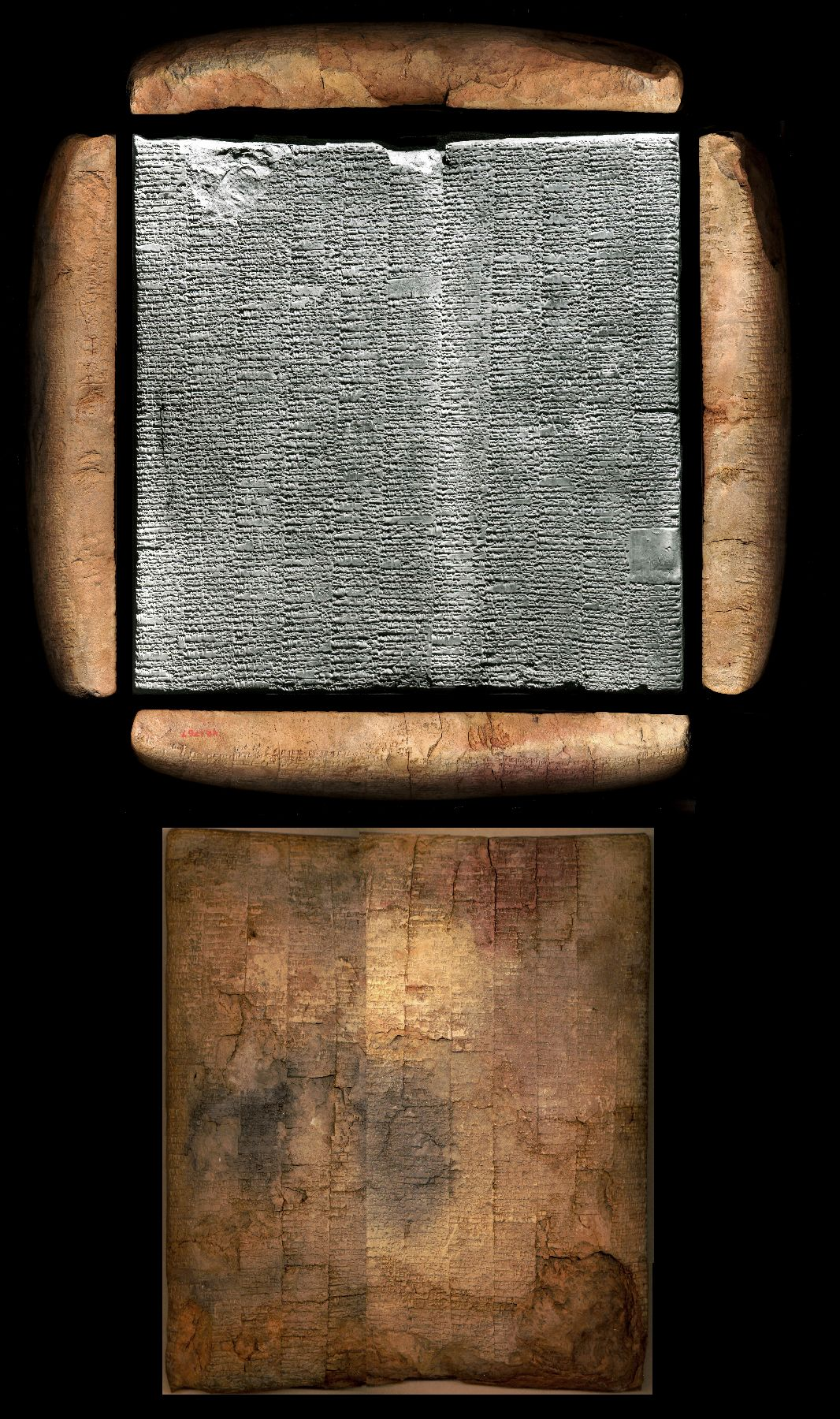 This is one of the largest clay tablets to survive from the Neo-Sumerian period. The 24 columns of writing on the back and front record the names of nearly 20,000 temple workers from the Umma area. It dates to the 37th year of the reign of Shulgi, a king of the 3rd Dynasty at Ur. During this period, Ur controlled much of Mesopotamia by means of a highly centralized bureaucratic system. Large schools of scribes oversaw the training of select young men in the skills of reading and writing the Sumerian language, which contained over 500 signs representing entire words (logographs) and individual syllables.